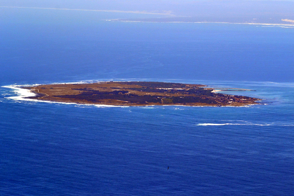 Robben Island see from Table Mountain in Cape Town